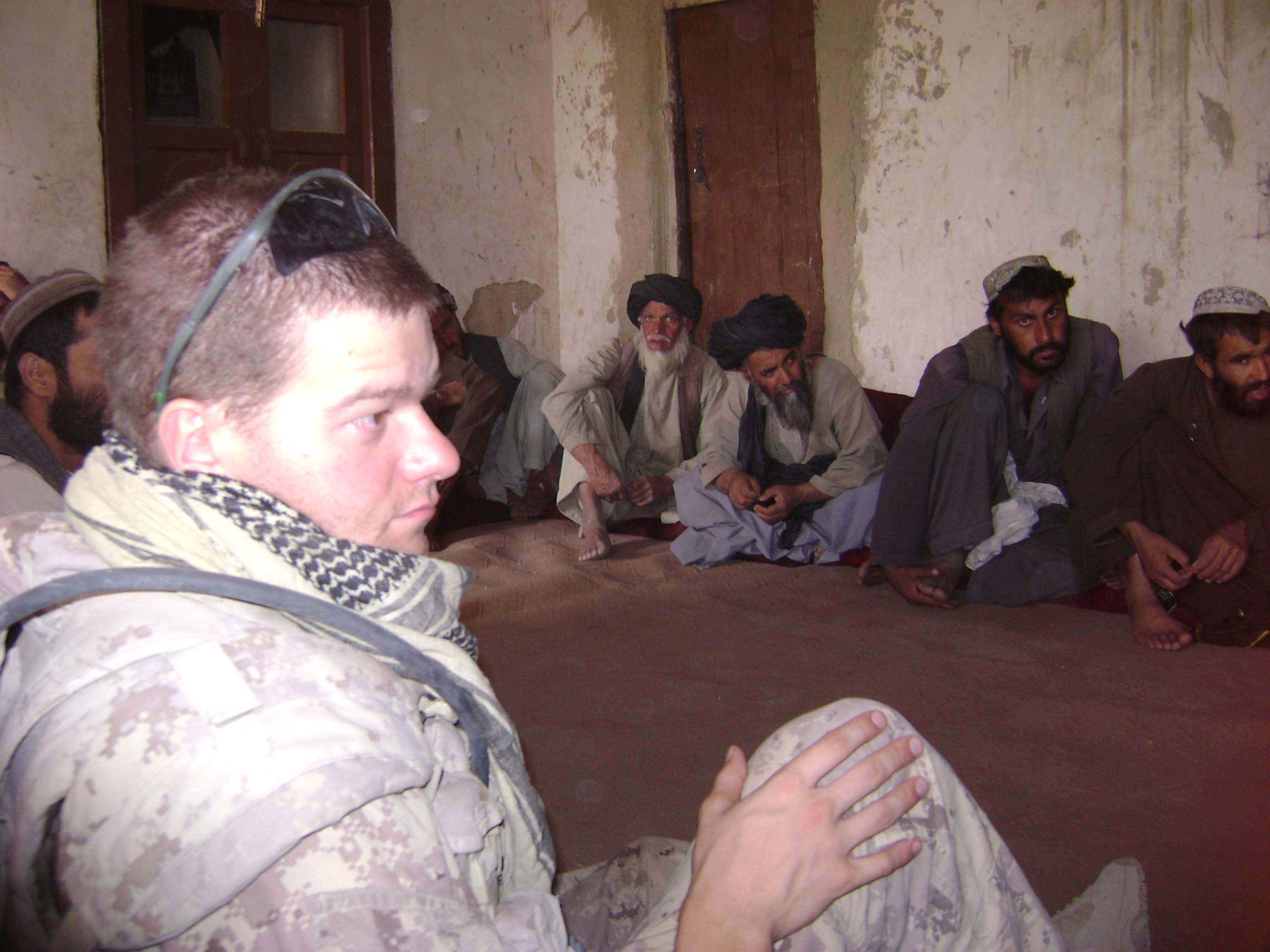 In this picture, Captain Simon Mailloux is leading a Shura with the head of villages around the Canadian Base Sperwan Ghar to discuss security and development concerns. The Canadian force in Sperwan Ghar had recently been under sustained rocket and ambush attacks and winning the support of the population was key to their effort.